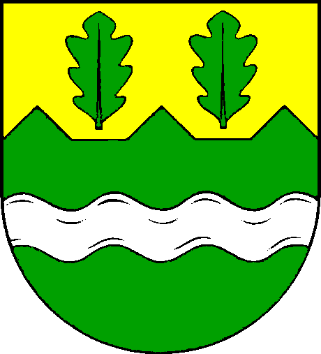 Coat of arms of the municipality Mielkendorf in Schleswig-Holstein, Germany.